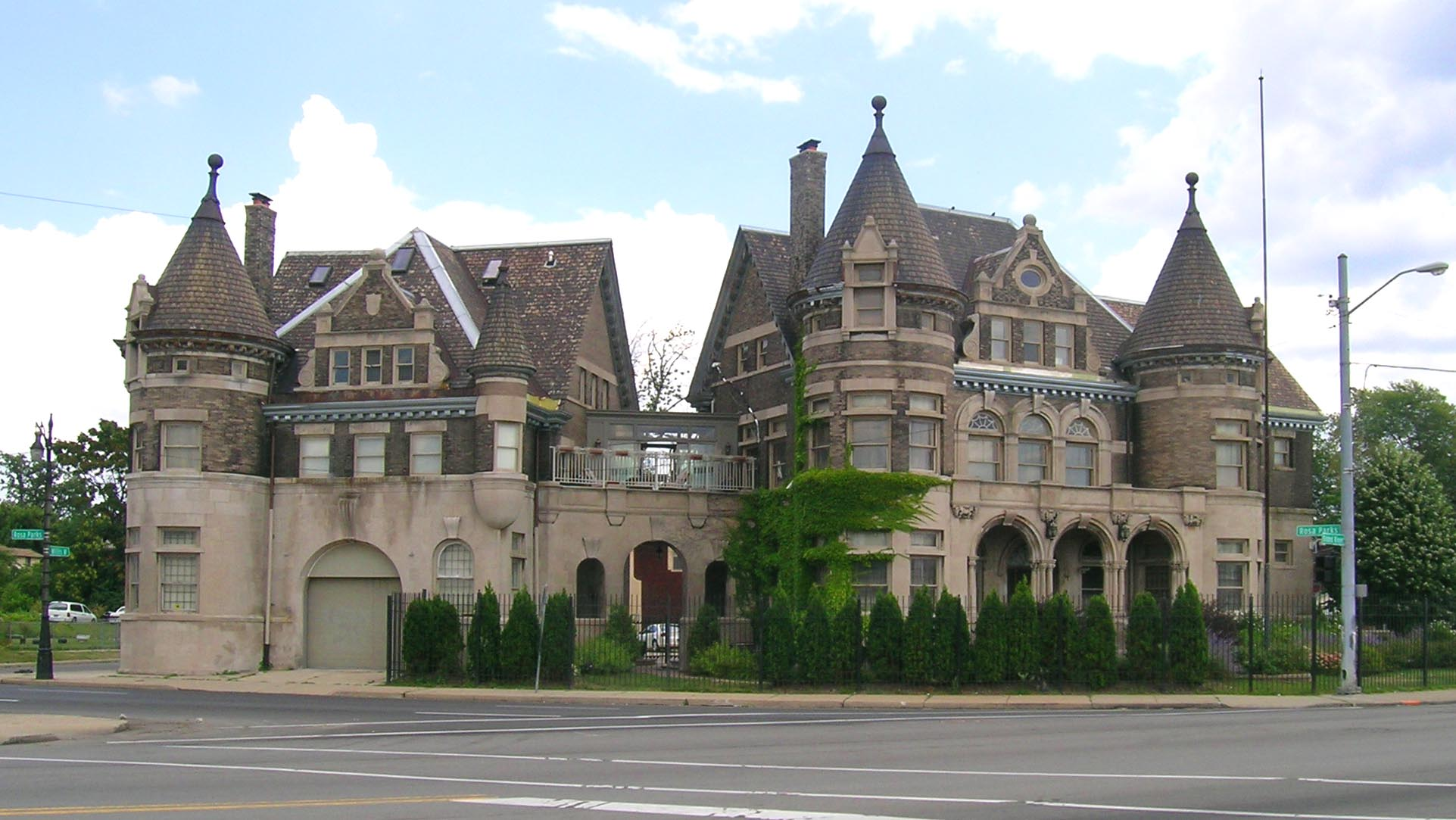 Old Eighth Precinct Police Station in Detroit; corner of Rosa Parks Blvd and Grand River Avenue. Contributing property to the Woodbridge Neighborhood Historic District. The building is a Registered Michigan State Historic Site. } Object location42° 20′ 42″ N, 83° 04′ 46.2″ W }